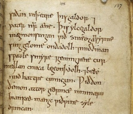 Folio of Old English book of Remedies (Lacnunga) with spell against penetrating worms, wið smeogan wyrme (line 3), a possible source of J.R.R. Tolkien's dragon or "worm", Smaug